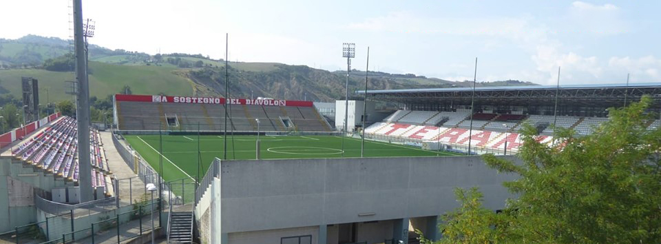 Photo